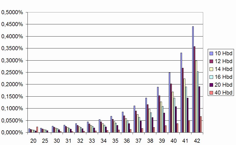 Risk for Trisomy 13 (Patau syndrome) in relation to maternal age (X axis) and gestation (Hbd, marked by color). Data from: Snijders RJ, Sebire NJ, Nicolaides KH.Maternal age and gestational age-specific risk for chromosomal defects.Fetal Diagn Ther. 1995 Nov-Dec;10(6):356-67. PMID 8579773